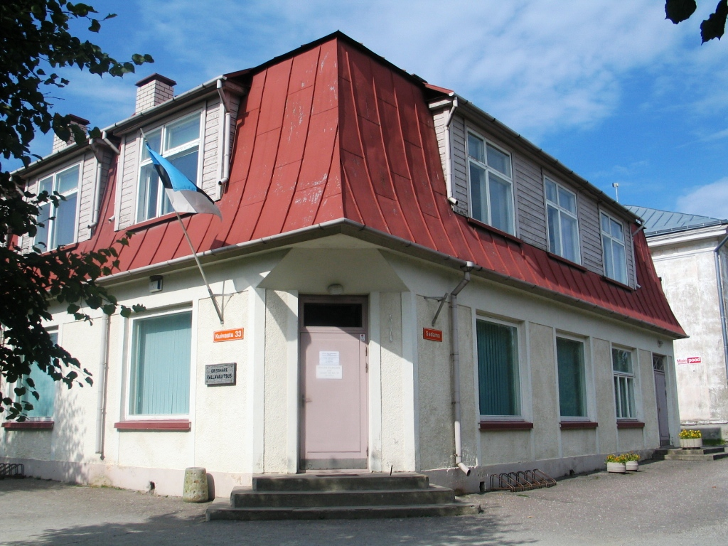 Commune house of Orissaare Commune